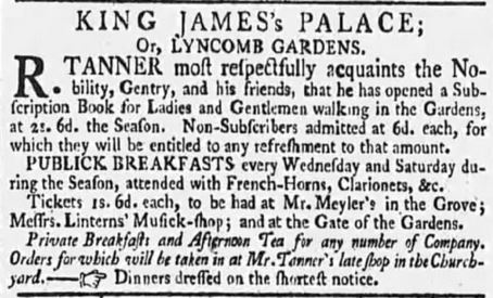 Advertisement for King James's Palace pleasure gardens, Lyncombe, Bath, England